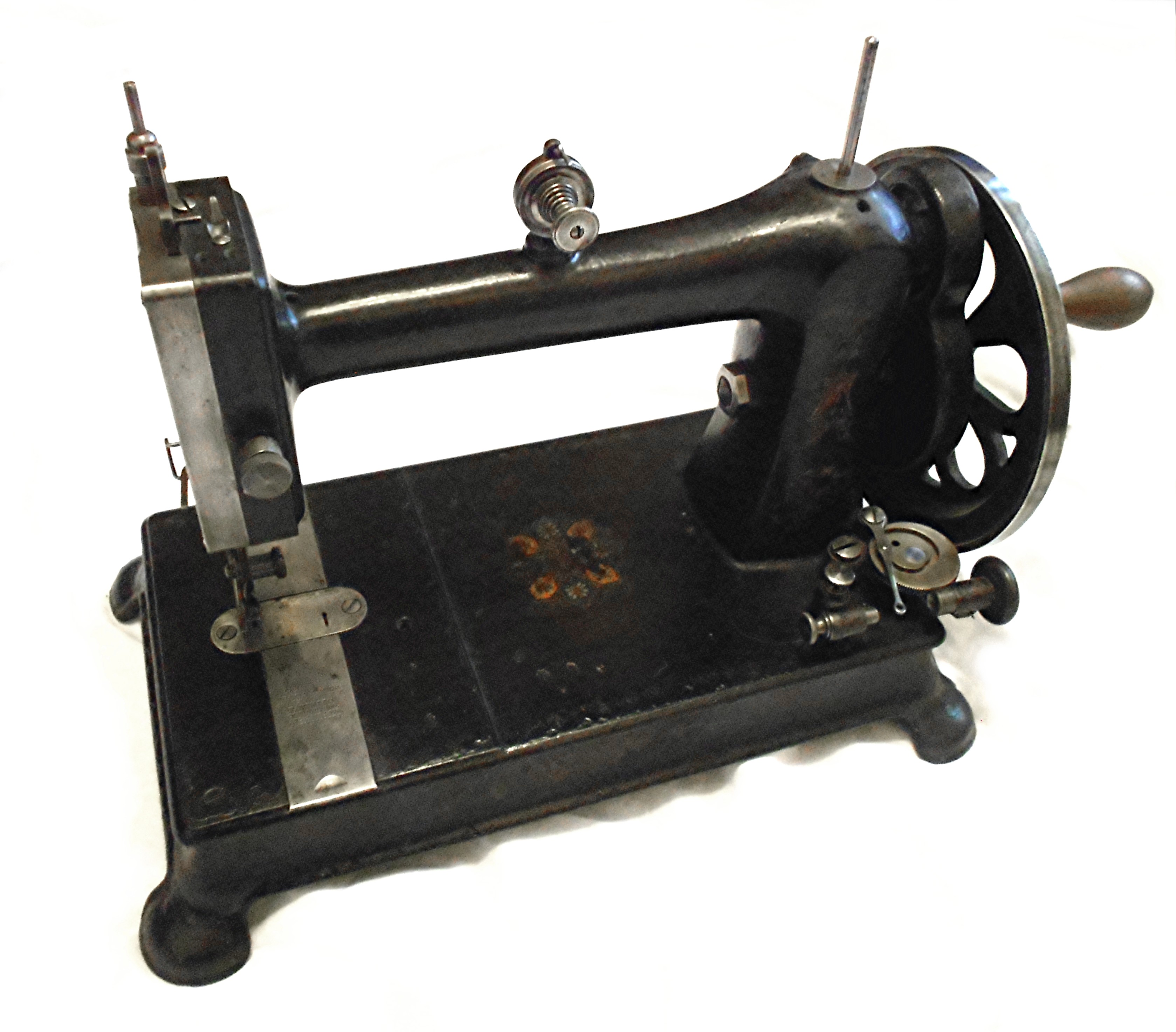 A rare Davis domestic vertical feed (walking foot) sewing machine on a cast iron base, produced around 1890.